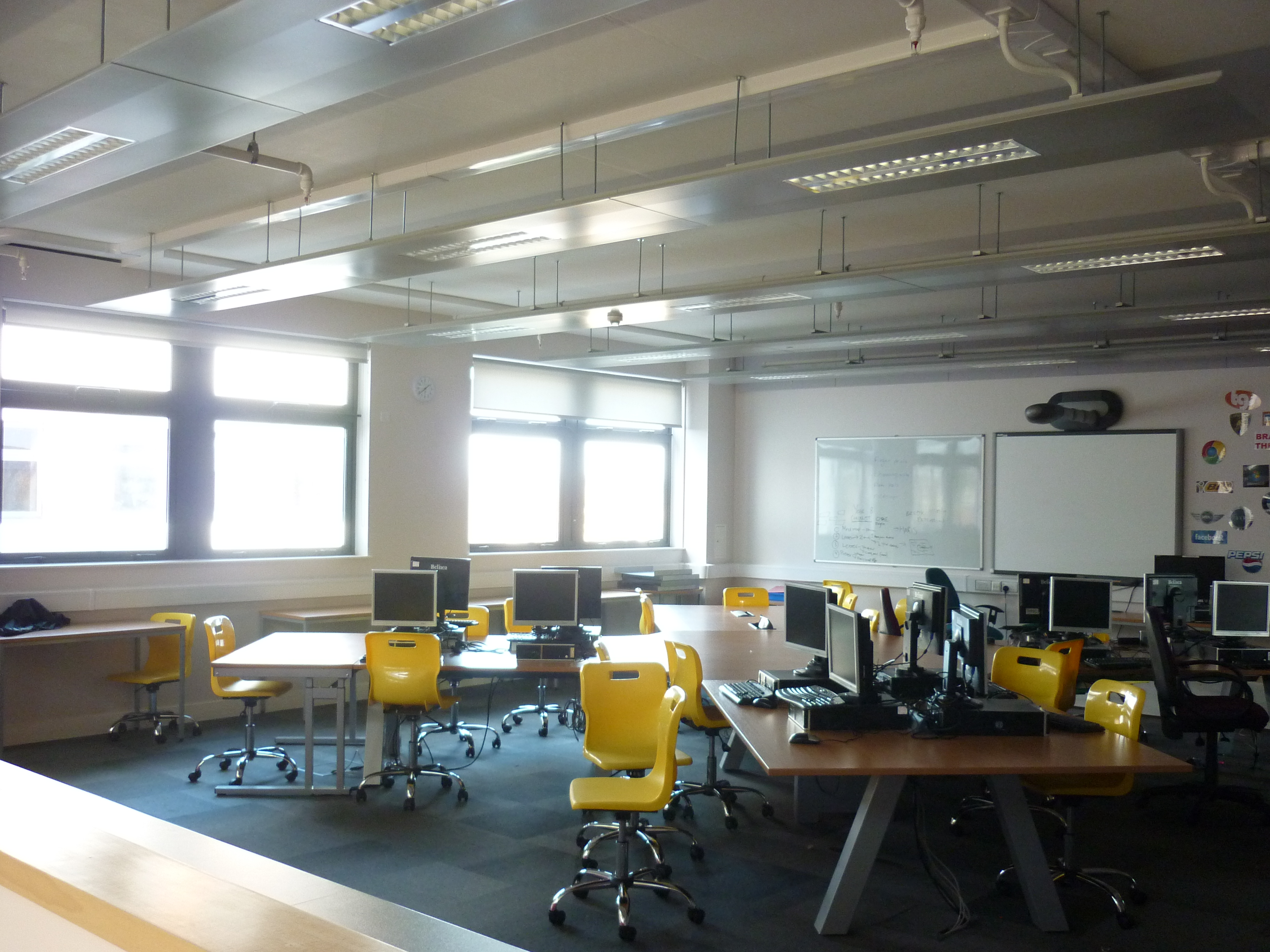 A modern school classroom with natural ventilation by opening windows and exposed thermal mass from a solid concrete floor soffit to help control summertime temperatures